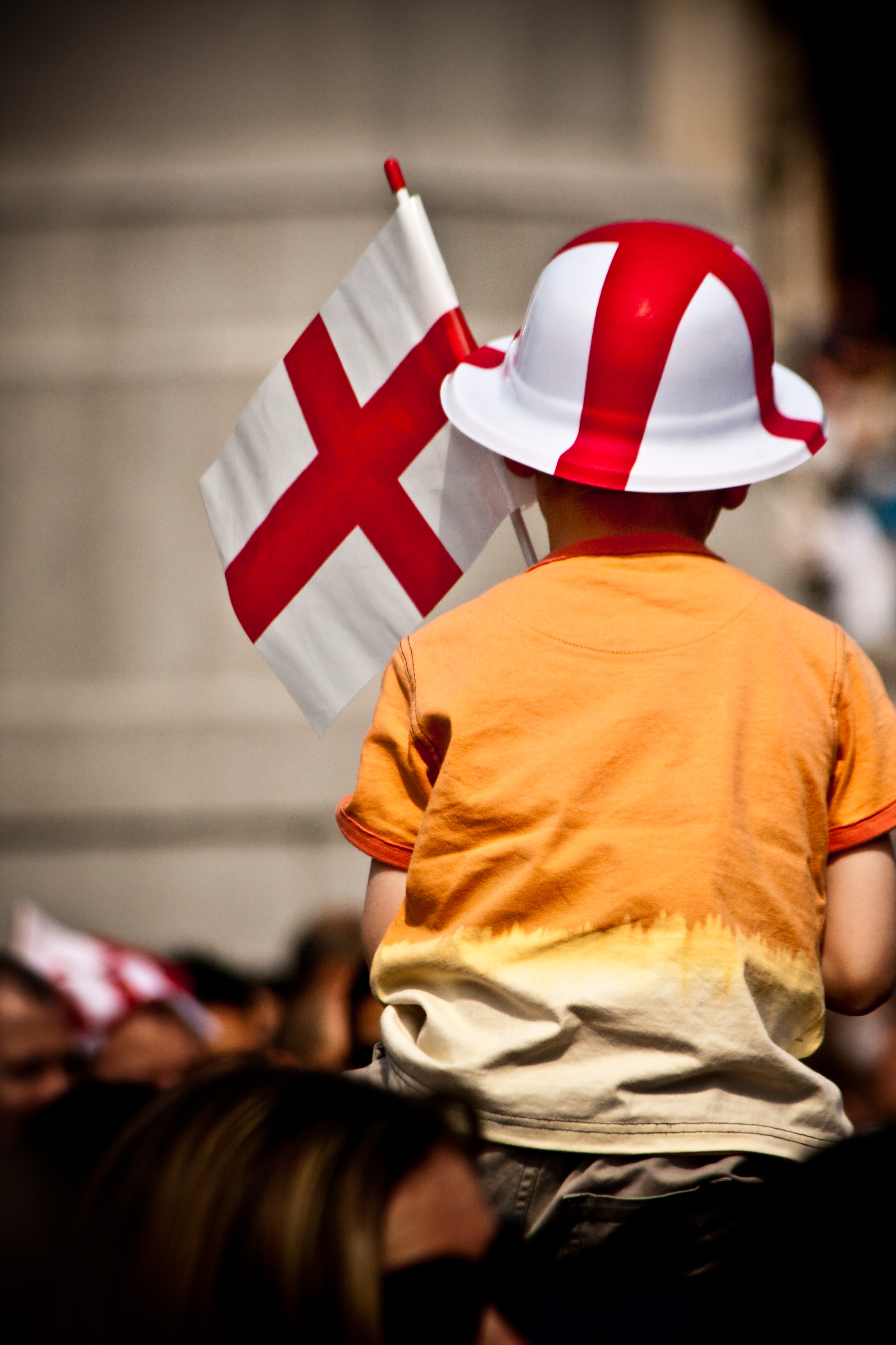 Isaac Newton claimed to have stood on the shoulders of giants. This little 'un is sitting on them.